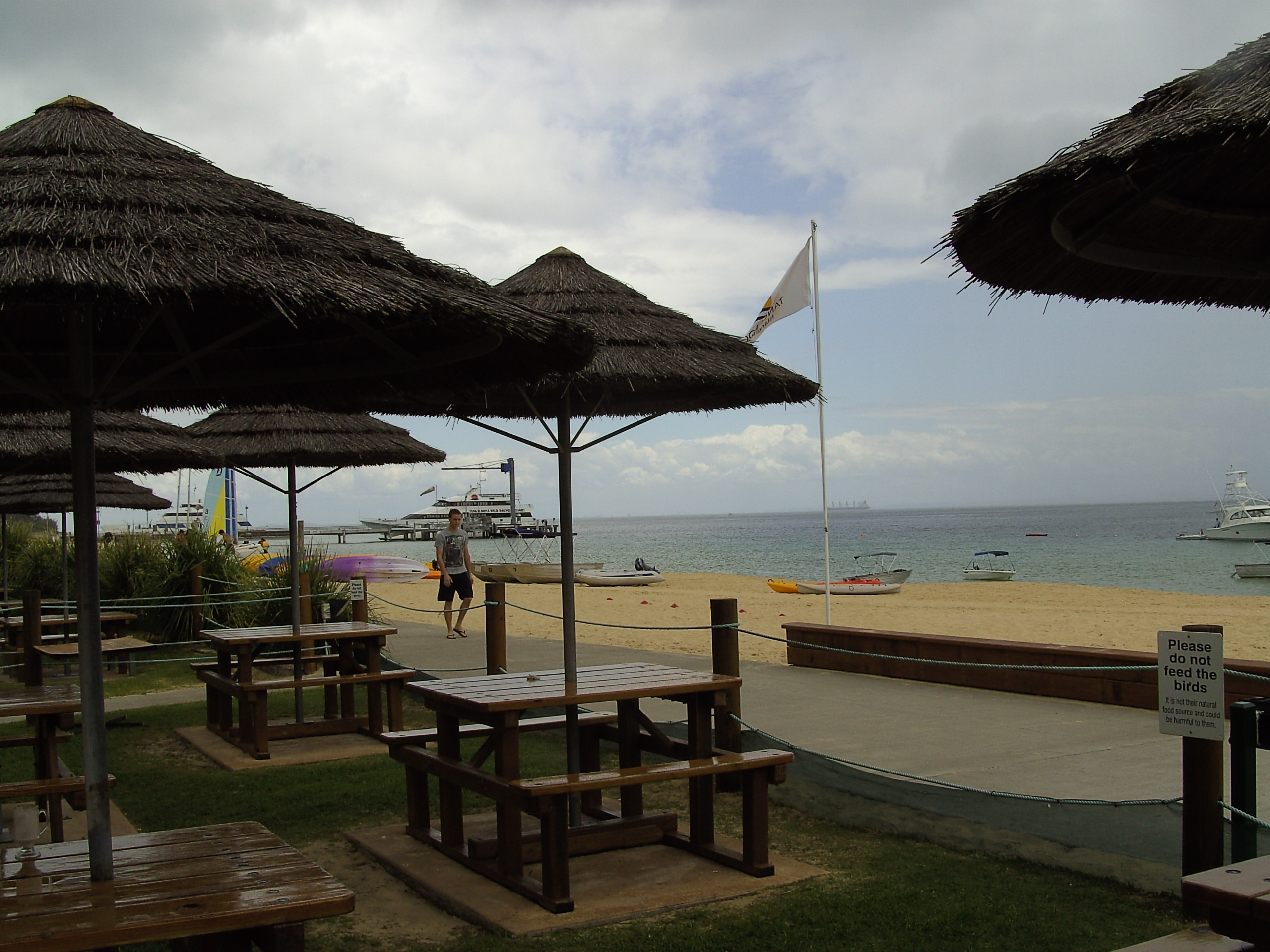 Tangalooma: beach-side resort facilities with the wharf in background; the beach landing barge is beyond the wharf at left.